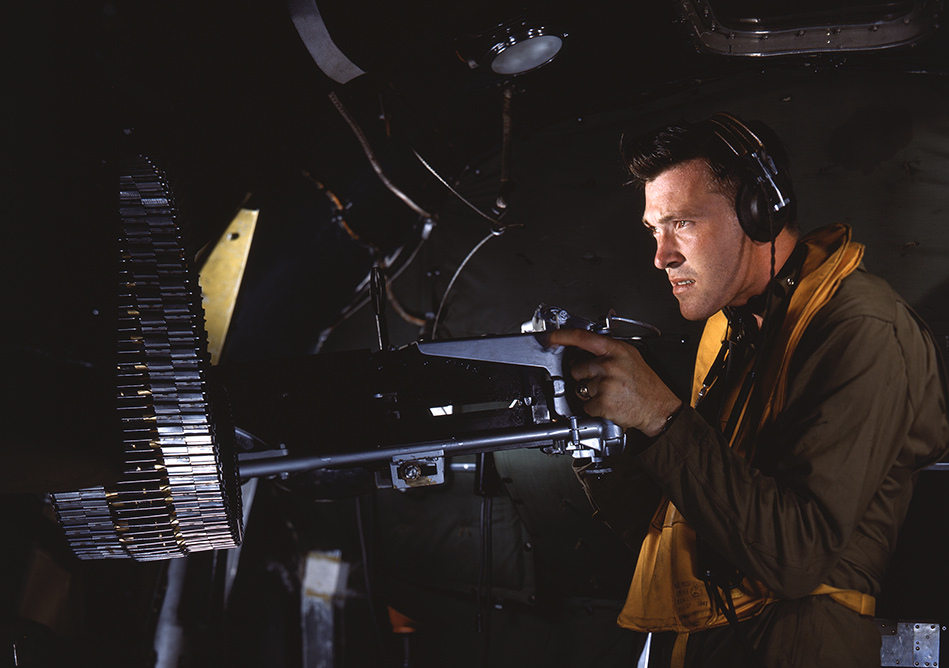 Title: [Waist Gunner in Boeing B-17 Flying Fortress, World War II] Creator: Richie, Robert Yarnall, 1908-1984 Date: April or May 1943 Place: Mitchel Field Air Force Base, Long Island, New York Part Of: Robert Yarnall Richie photograph collection Physical Description: 1 transparency: film, color; 10 x 13 cm File: ag1982_0234_2526_K_998_sm_opt.jpg Rights: This image is protected by copyright law. No commercial reproduction or distribution of this image is permitted without the written permission of Southern Methodist University, Central University Libraries. This image may be used for educational purposes, provided it is not altered in any way, and Southern Methodist University, Central University Libraries, DeGolyer Library is cited. A high-quality version of this file may be obtained for a fee by contacting . For more information, see: View the full series: View Robert Yarnall Richie photograph collection